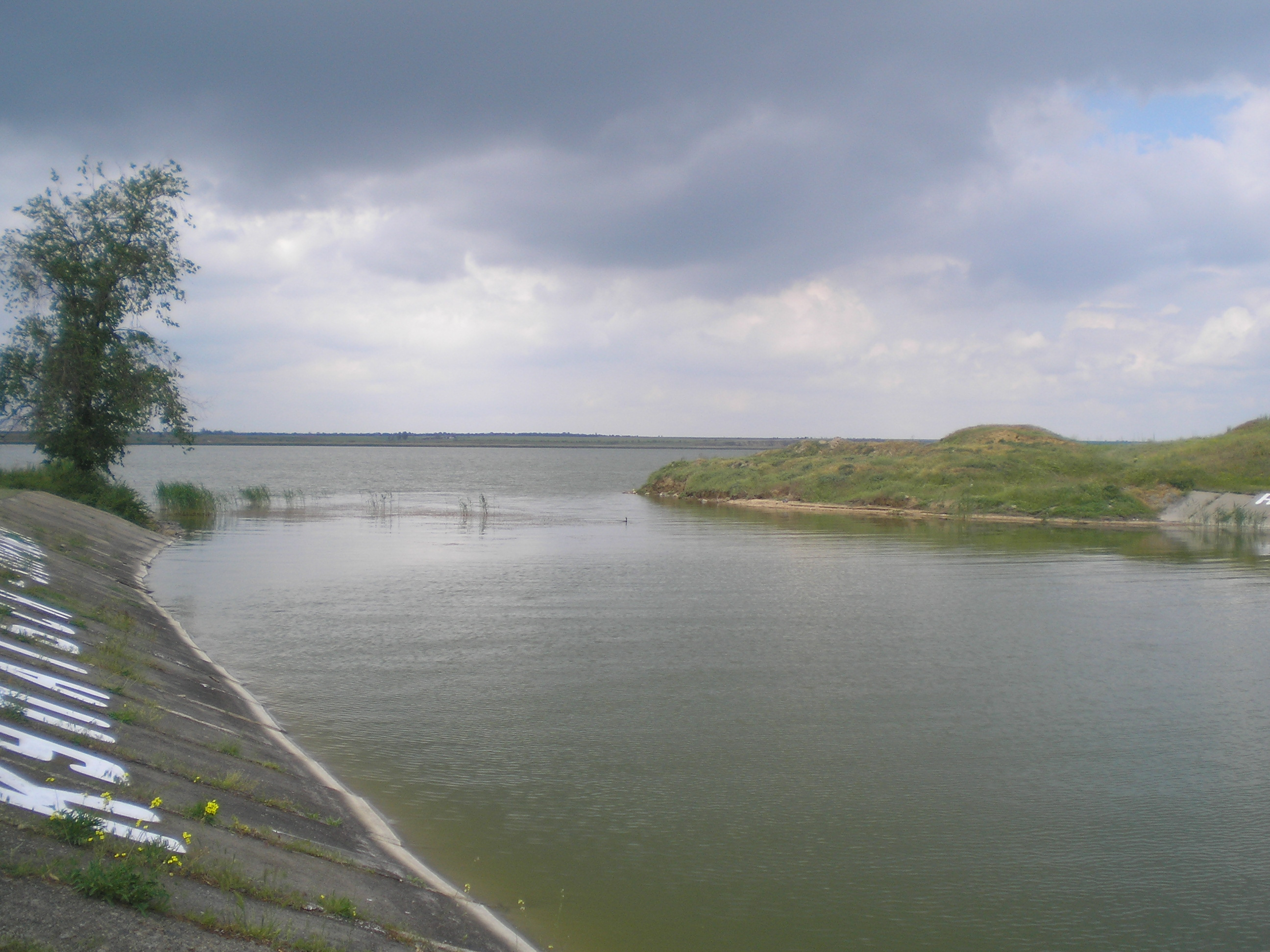 Lake Kitay near the village Chervony Yar